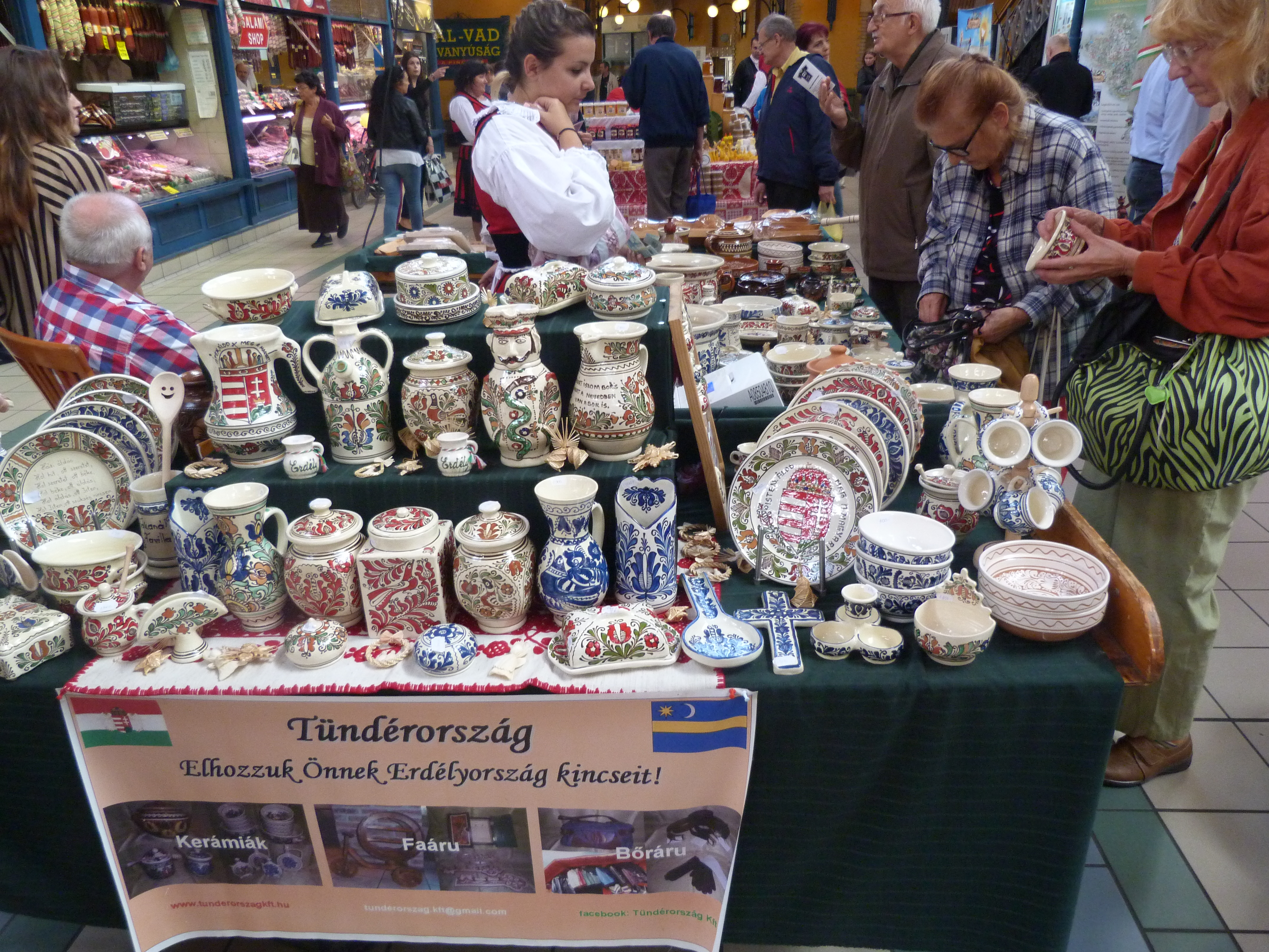 Live on the 12th of September, 2014. Budapest, Great Market Hall. Székely Land in the Great Market Hall. Goods of Székely Land. Legends of Székely Land. Map of Székely Land. ©© Derzsi Elekes Andor, Budapest 2014, You are authorised to use these photos and vids under Creative Commons – even for commercial, for profit purposes. Photos must be attributed to Derzsi Elekes Andor. All of the photos and vids in the Metapolisz DVD line are under Creative Commons and can be used even for commercial – for profit – purposes. Recommended Citation Derzsi Elekes Andor: Metapolisz DVD line